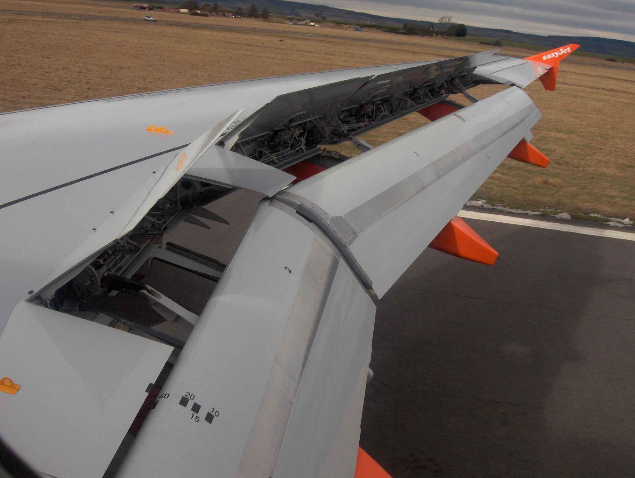 Airbus A319 wing during the landing. Flaps are in full extended position, and the spoilers are up.